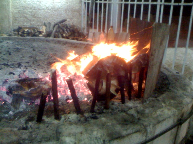 Still from a collection of pictures of the Iraqi national dish "Semek Masgouf" taken in different times of 2010 in Iraq and Syria.